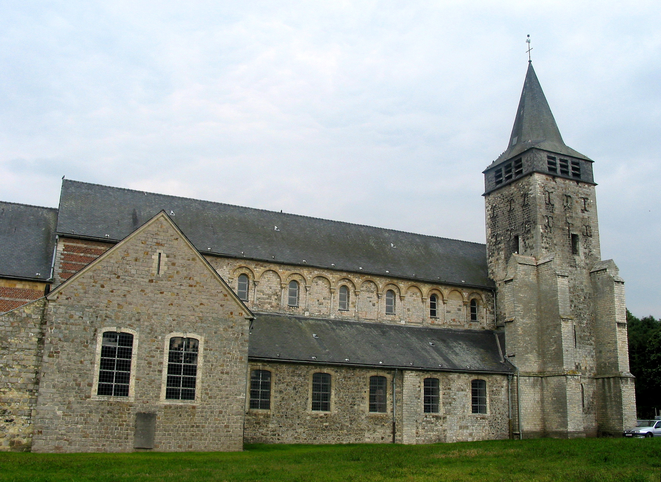 Orp-le-Grand (Belgium), St. Adela and St. Martin's church (XIIth century).